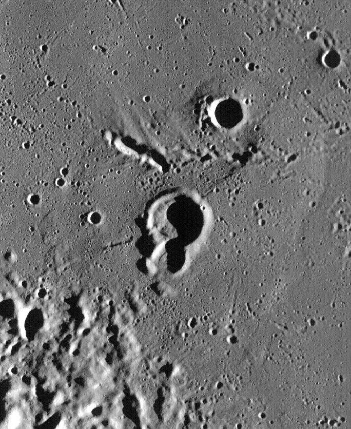 Intrusive dome on the Moon, in Mare Frigoris (very low wide elevation with irregular roundish boundaries, which is seen only due to low Sun). Its width is 30-40 km and heigth is about 200 m (according to altimetric data by LRO spacecraft, obtained via JMARS software). It is known as Ar1 (see Wöhler & Lena, 2009). Shore of Mare Frigoris is seen in lower left. Two craters in the center are concentric craters; bigger one is Archytas G, and smaller one is unnamed. A chain of secondary craters with characteristic herringbone pattern of ejecta is seen to upper left. Image by Lunar Reconnaissance Orbiter, made with Wide Angle Camera on 20 June 2010 from altitude 41 km. Sun elevation is 5.6°. Width of the photo is 45 km, north is approximately up.